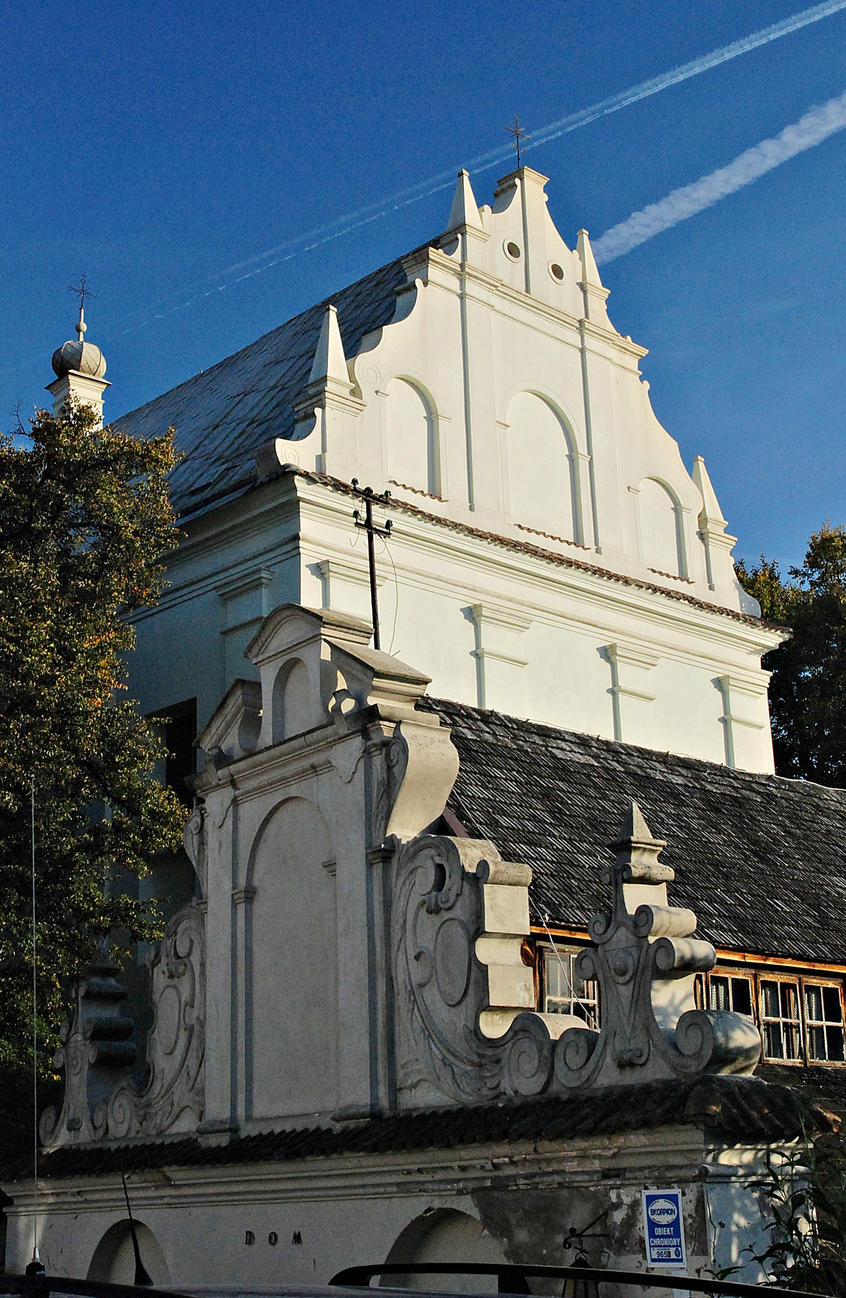 Church of St. Anne in Kazimierz Dolny